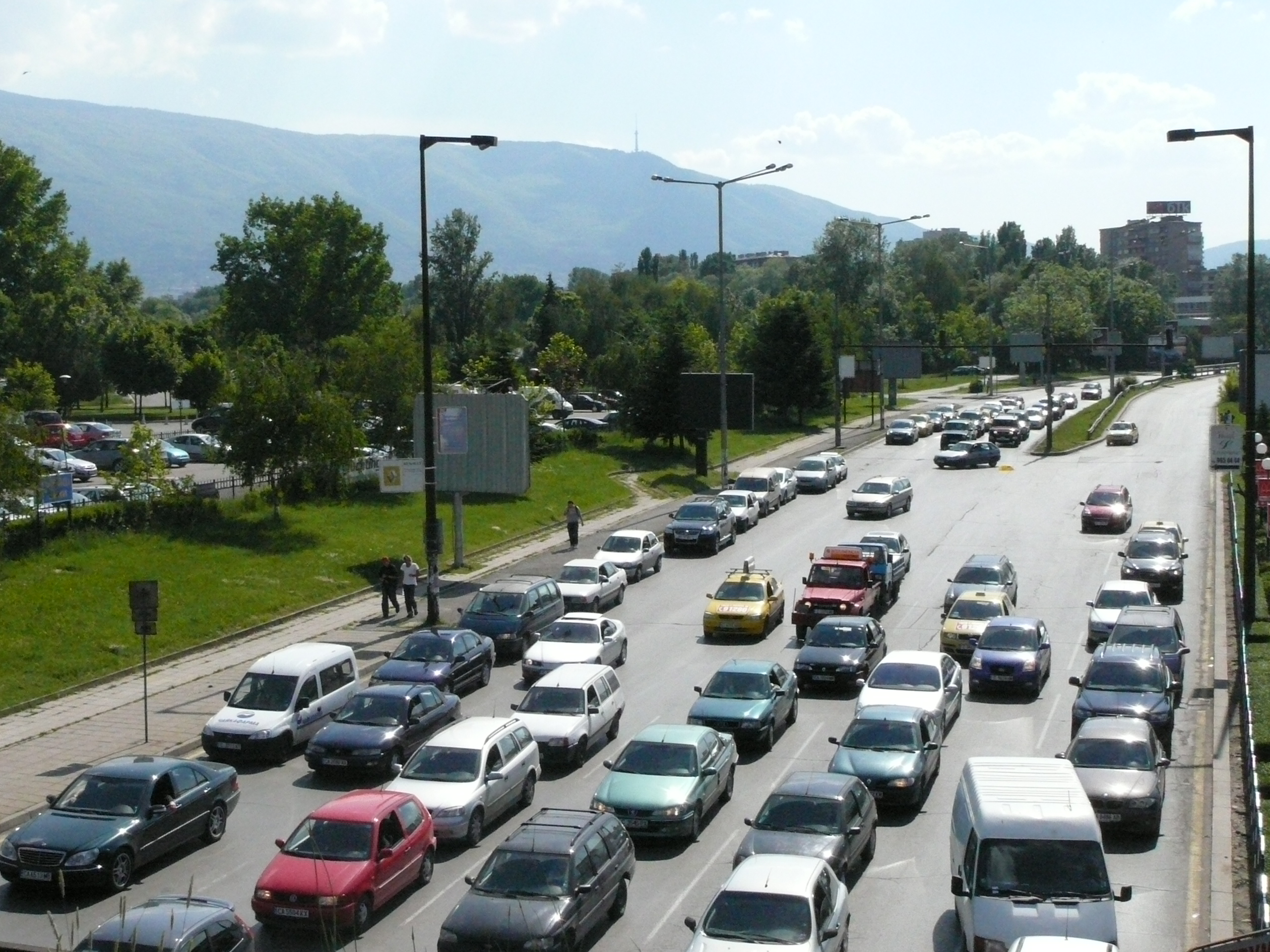 Bulgaria Boulevard, Sofia, Bulgaria